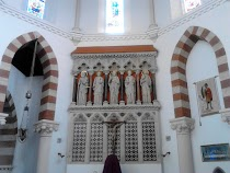 Reredo of Jesus and the Four Evangelists at St Pancras